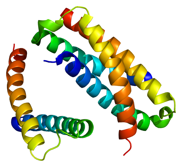 Structure of the SH2B2 protein. Based on PyMOL rendering of PDB 1q2h.